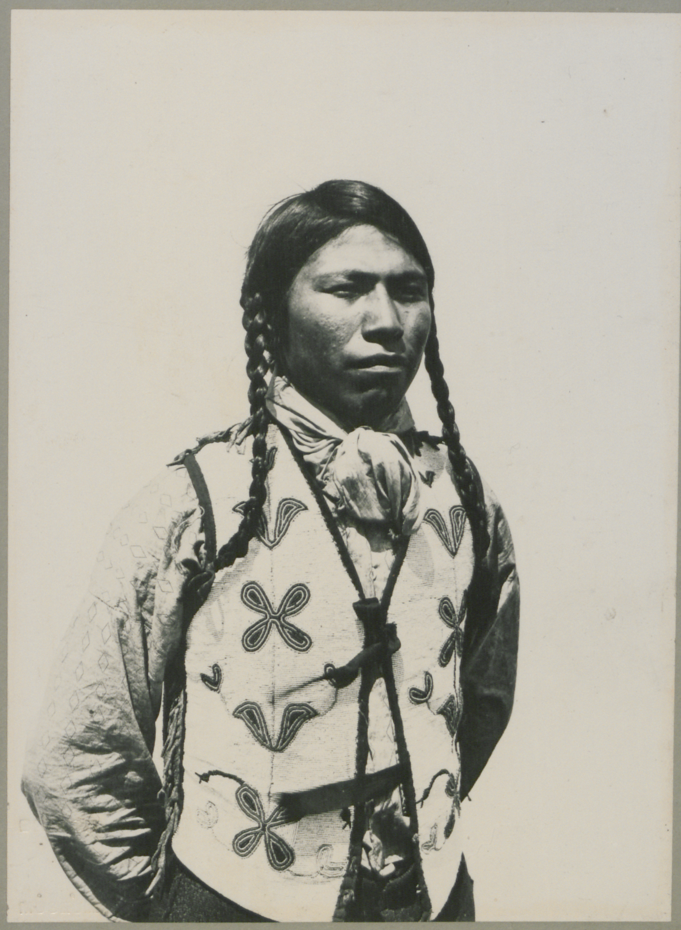 Cree Indian.